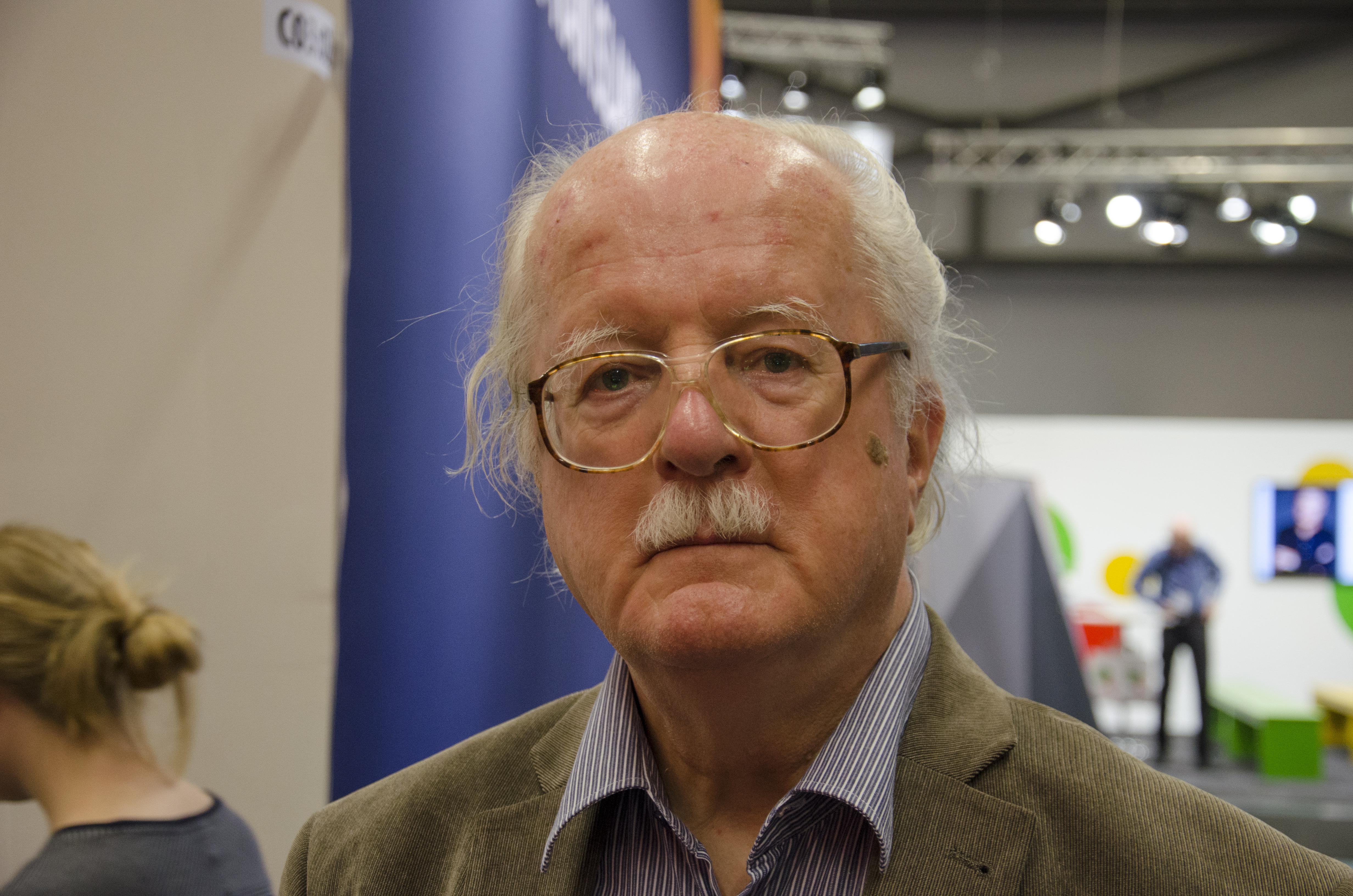 Béla Jávorszky at the Gothenburg Book Fair 2015.